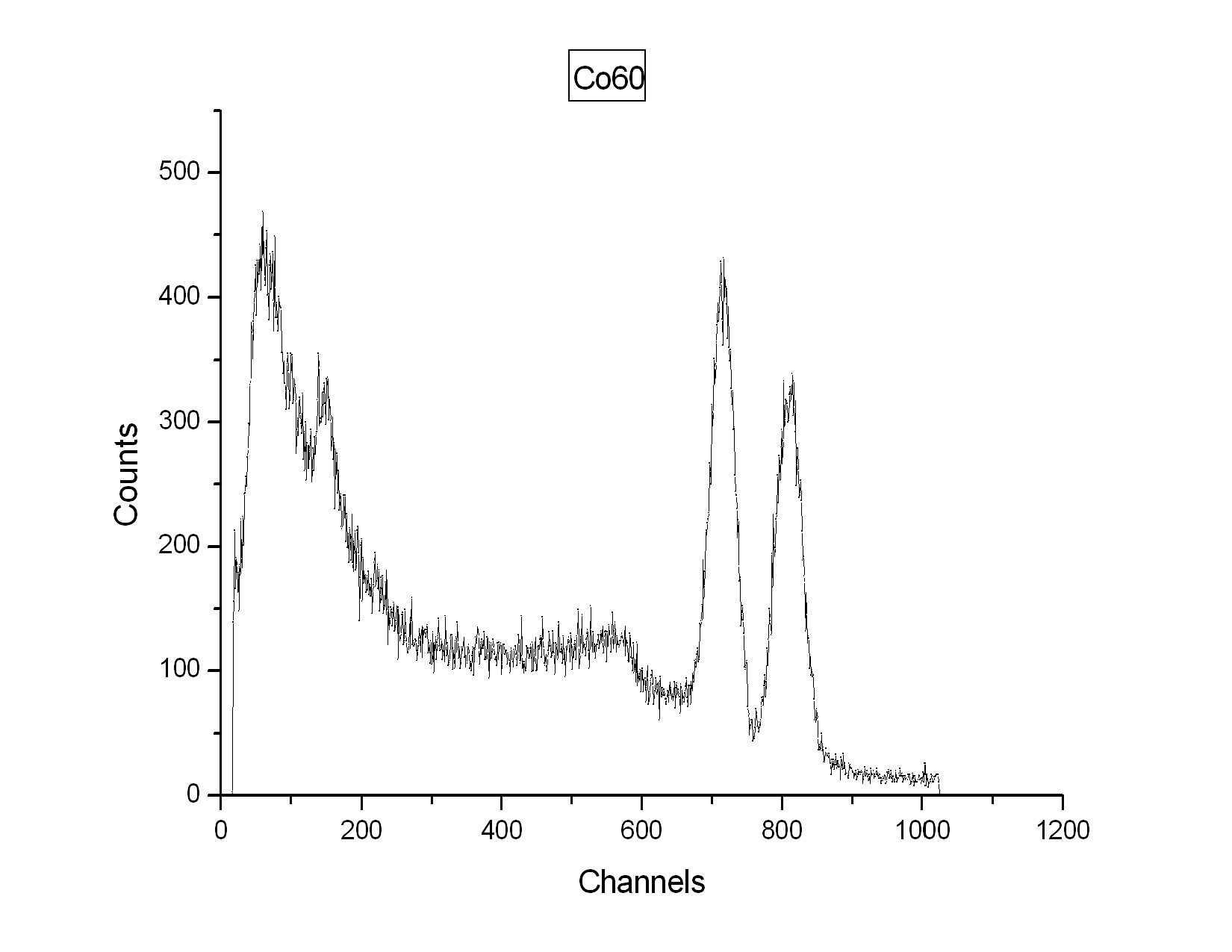 NaI Gamma Spectrum of Co60